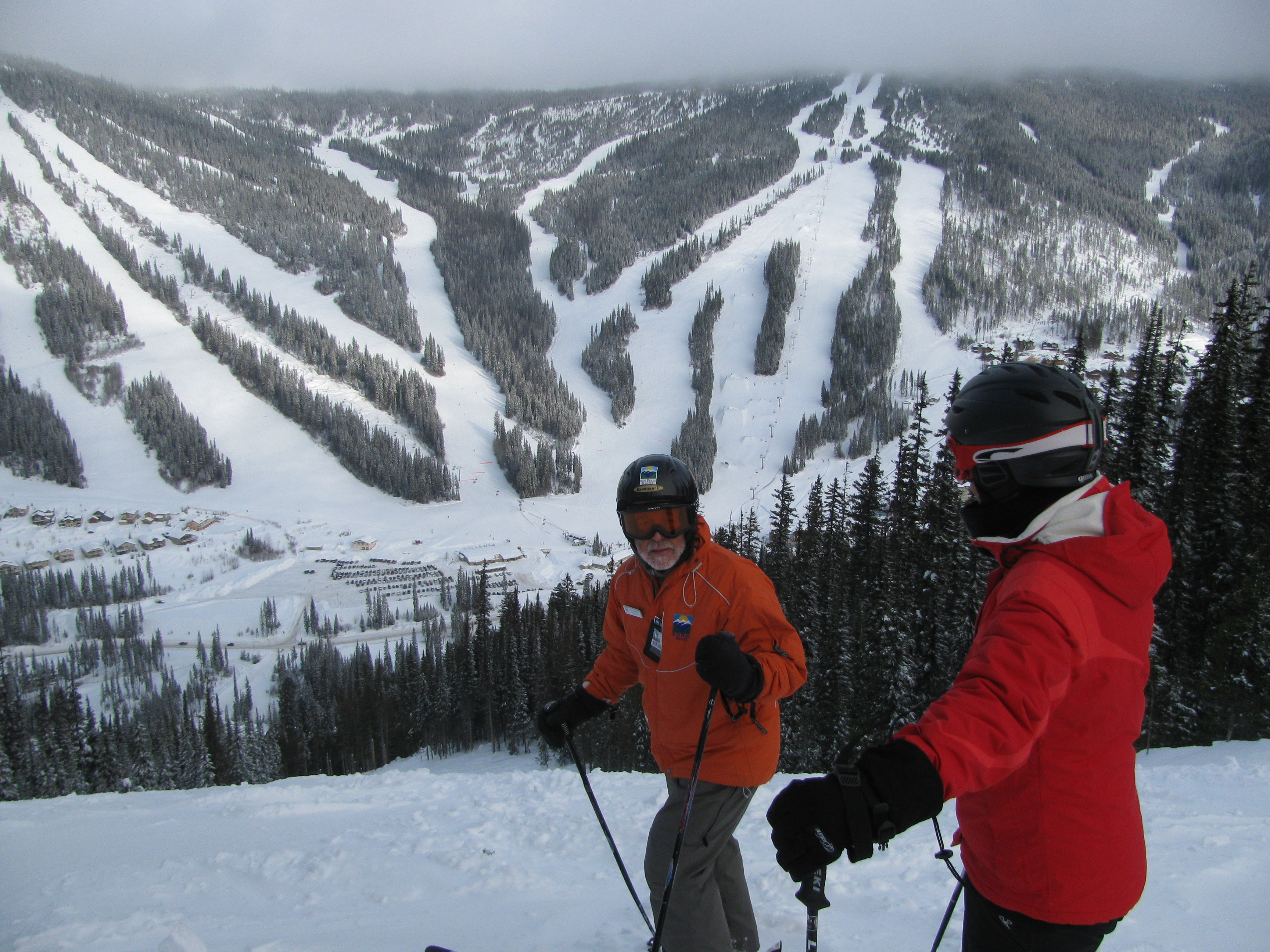 Sun Peaks Ski Resort